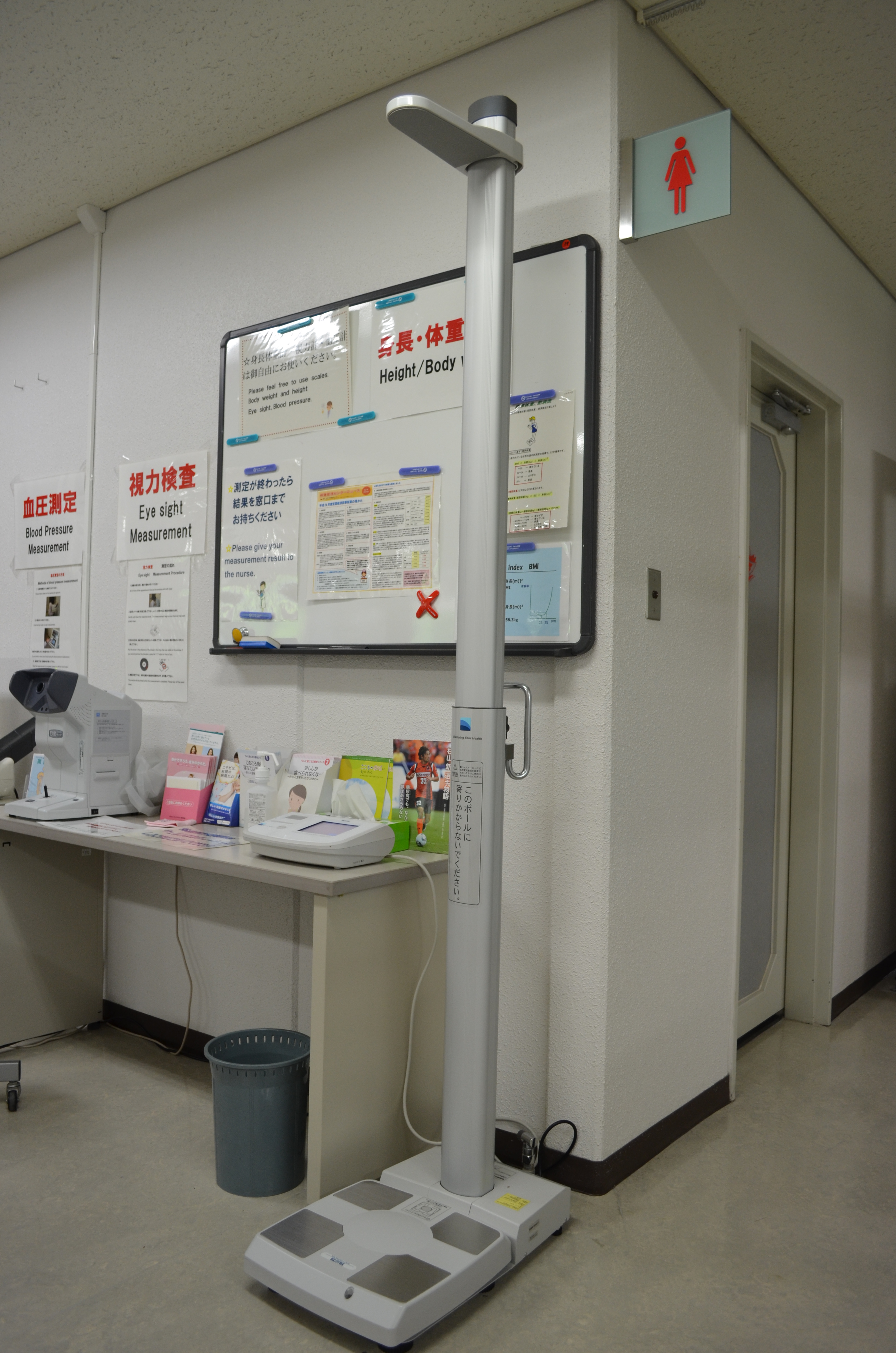 Health Center